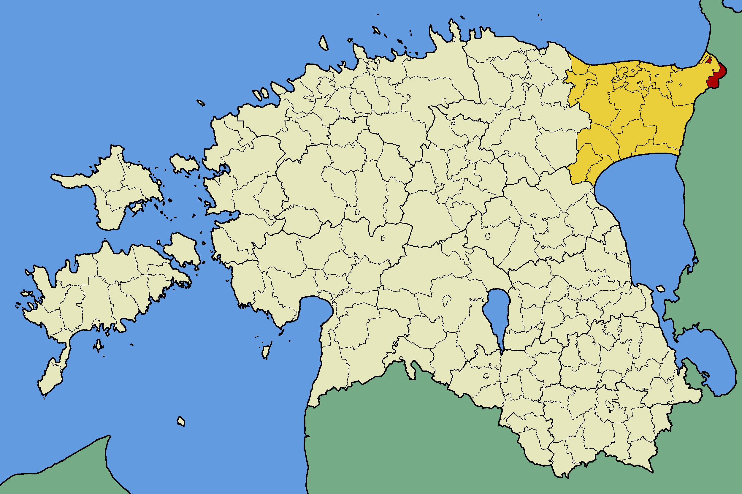 Map of Estonia with borders of municipalities (parishes). Ida-Viru county and Narva town municipality emphasized.